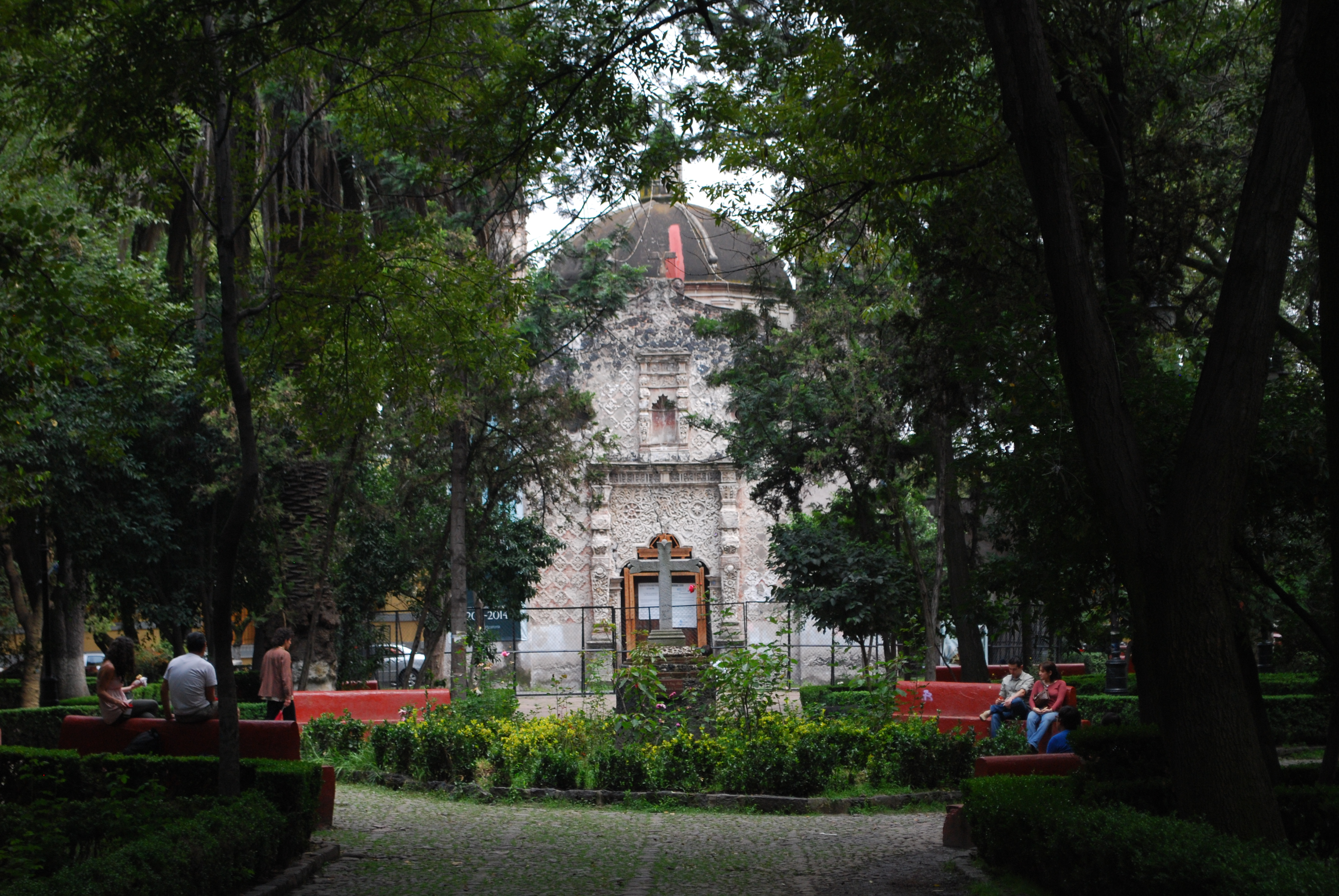 View of the Capilla de la Inmaculada Concepción located in Coyoacán, Mexico City